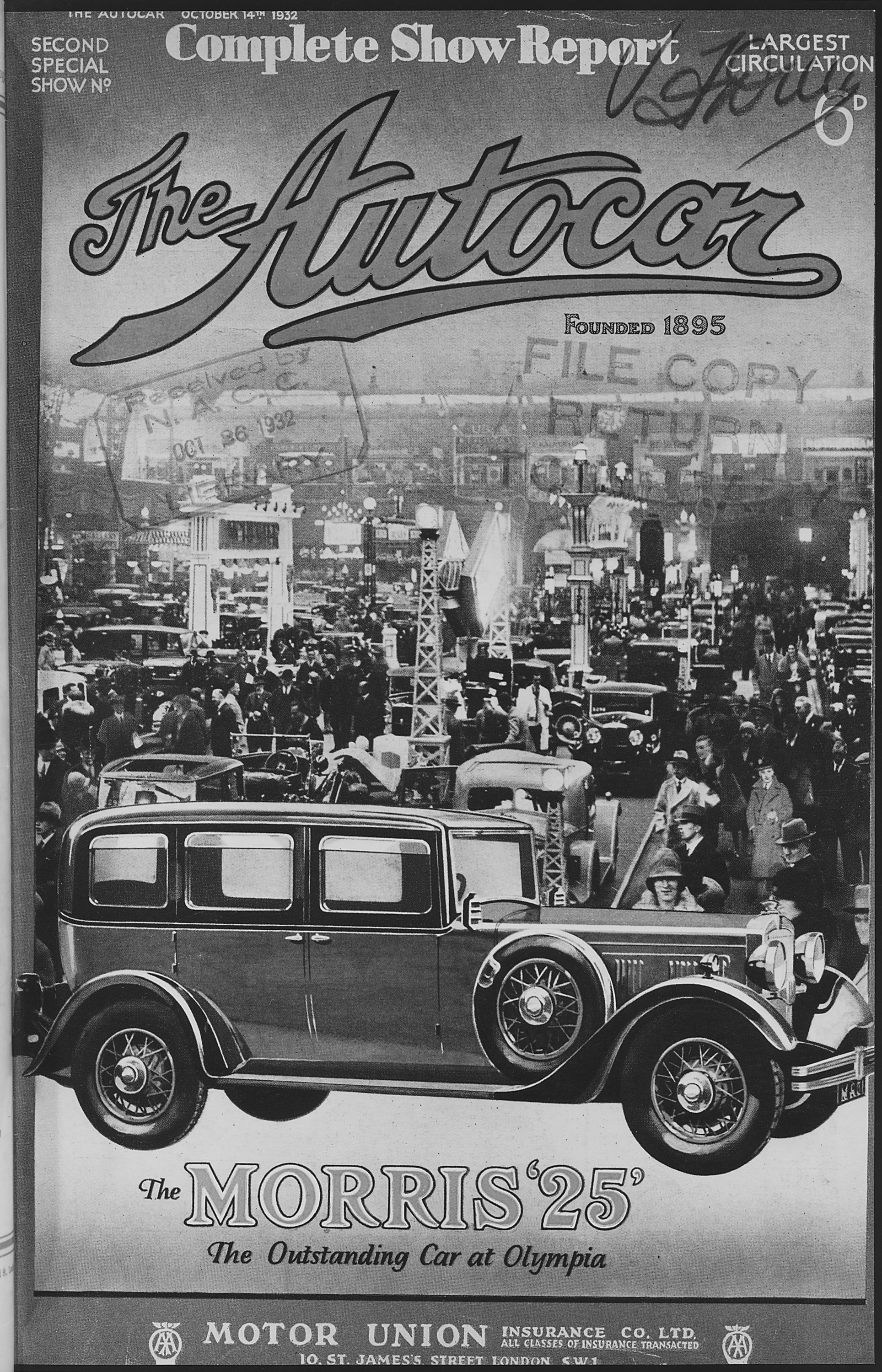 Scope and content: Magazine advertisements, primarily from theThe Autocar (United Kingdom), but also from the Motor (United Kingdom), The light Car (United Kingdom), Omnia (France) and Motor Italia (Italy).